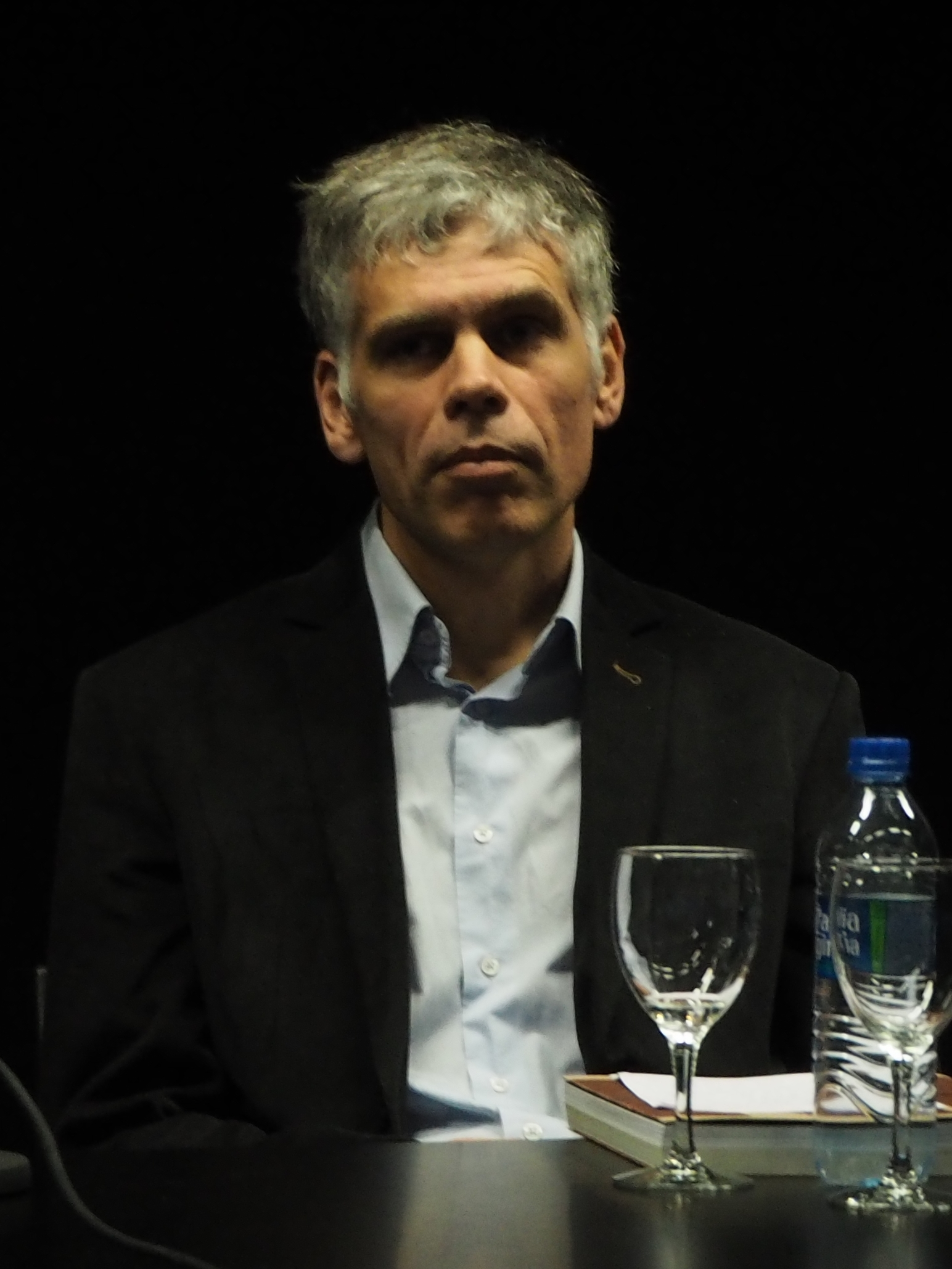 Arūnas Streikus at the presentation of book "Glory was at the fingertips"